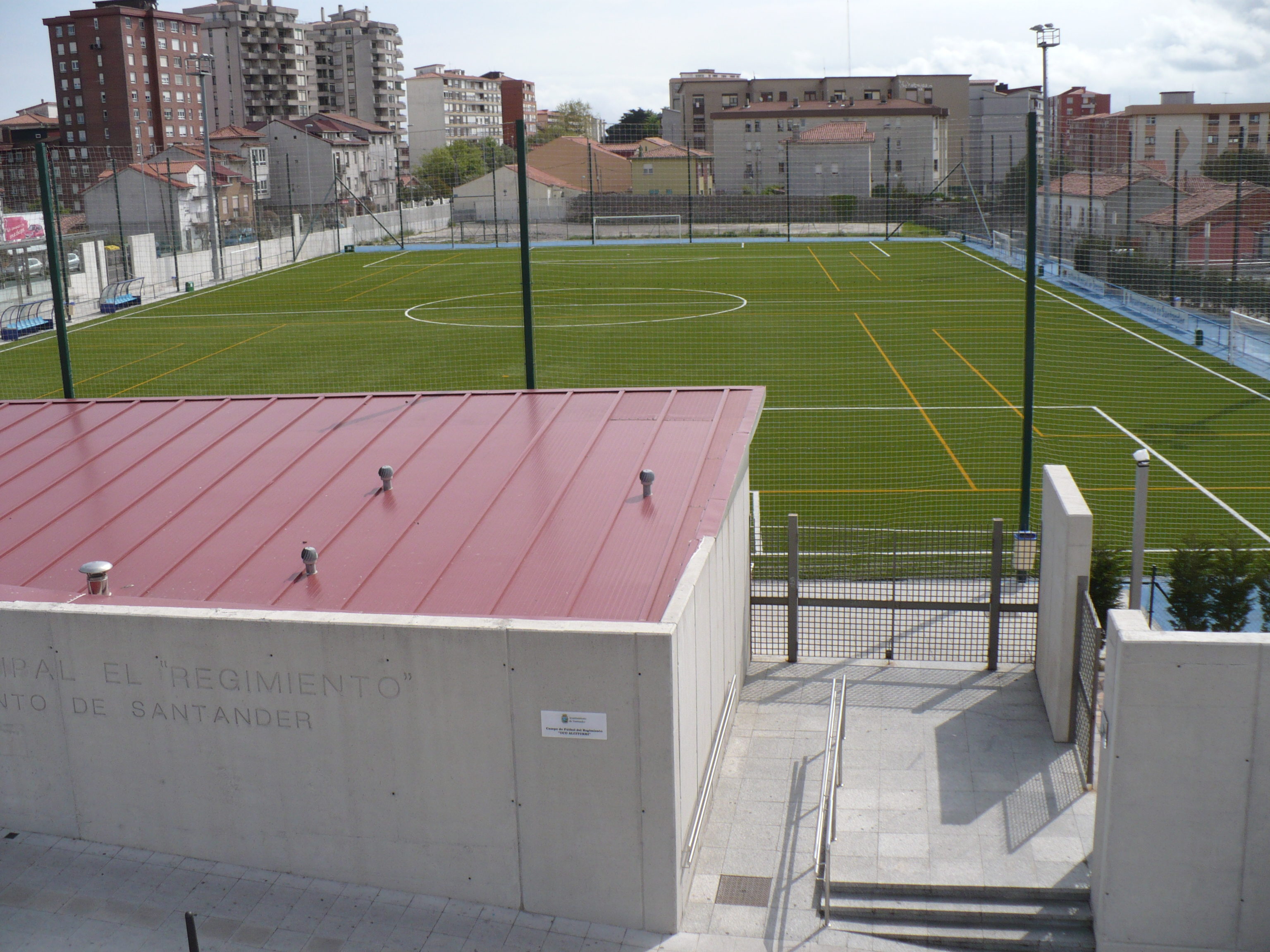 El Regimiento football ground (Santander, Cantabria)